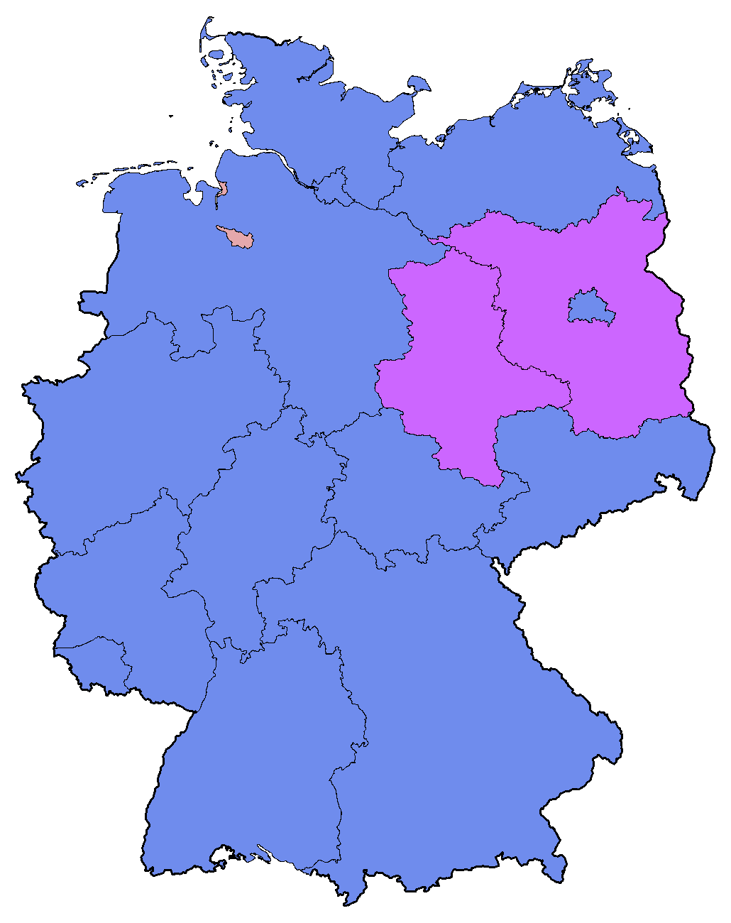 Electoral map showing the party list vote results (Zweitstimmen) of the 2009 Bundestag (German parliament) elections by state. Blue denotes states where the CDU/CSU had the plurality of the votes; purple denotes states where Die Linke had the plurality of the votes; and pink denotes states where the SPD had the plurality of the votes.